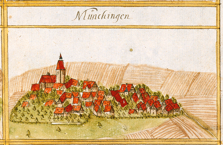 View of Münchingen, Korntal-Münchingen, from the forest register books created by Andreas Kieser